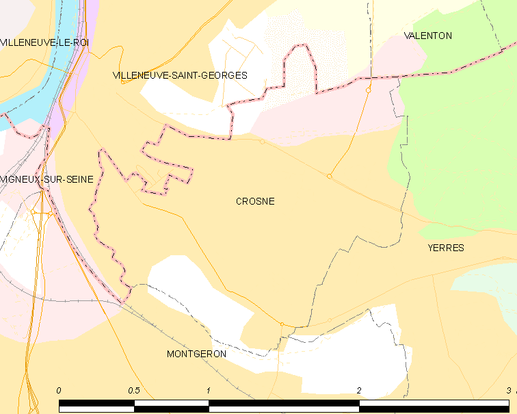 Map of French municipality Crosne